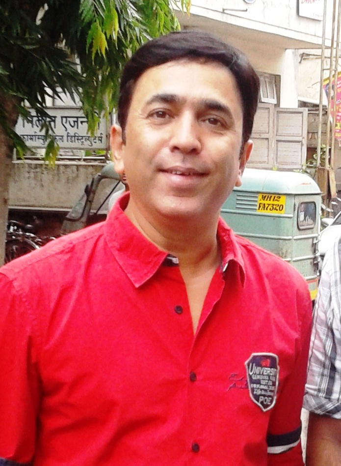 Pushkar Kshotri